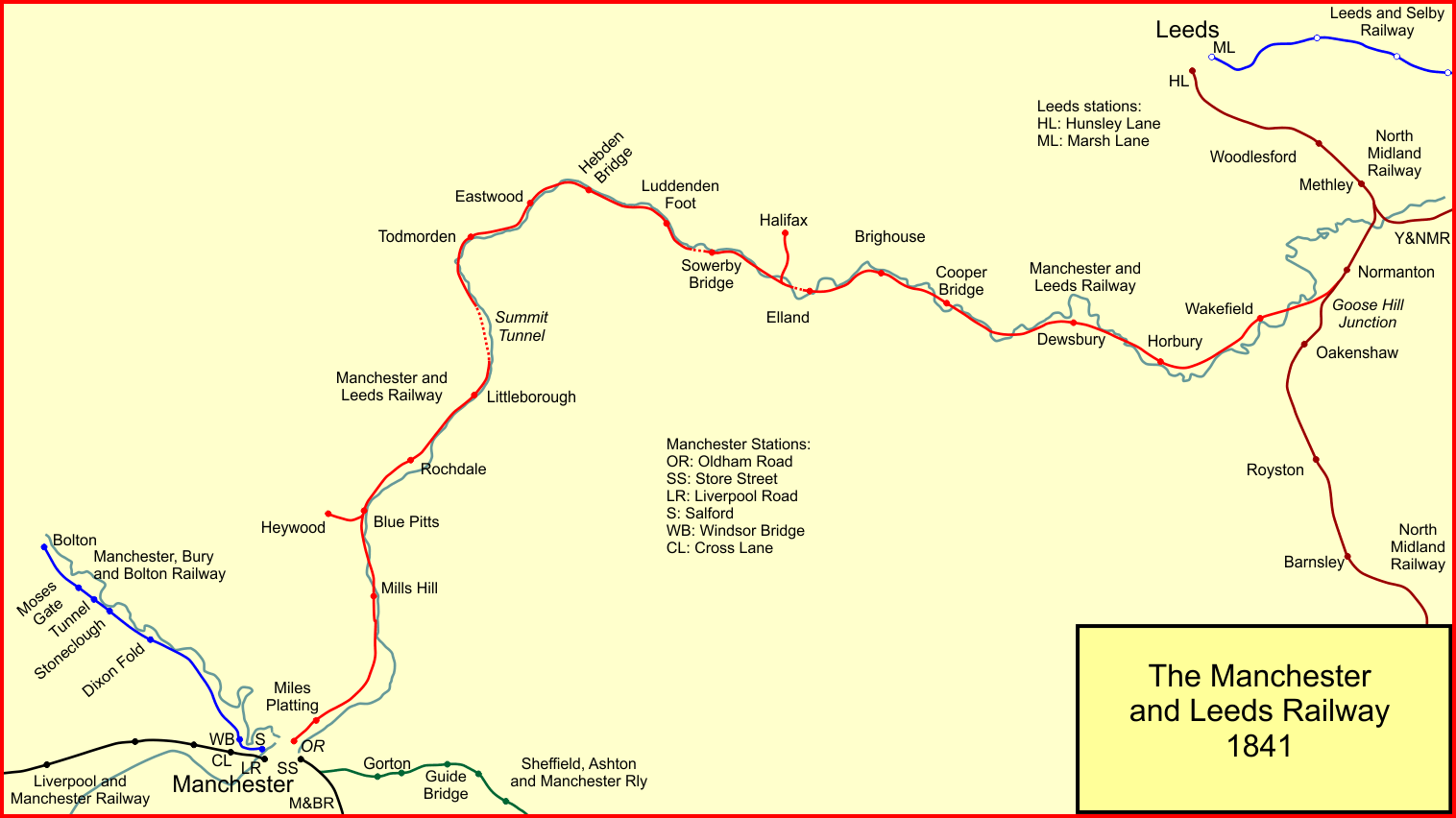 System map of the Manchester and Leeds Railway in 1841, England